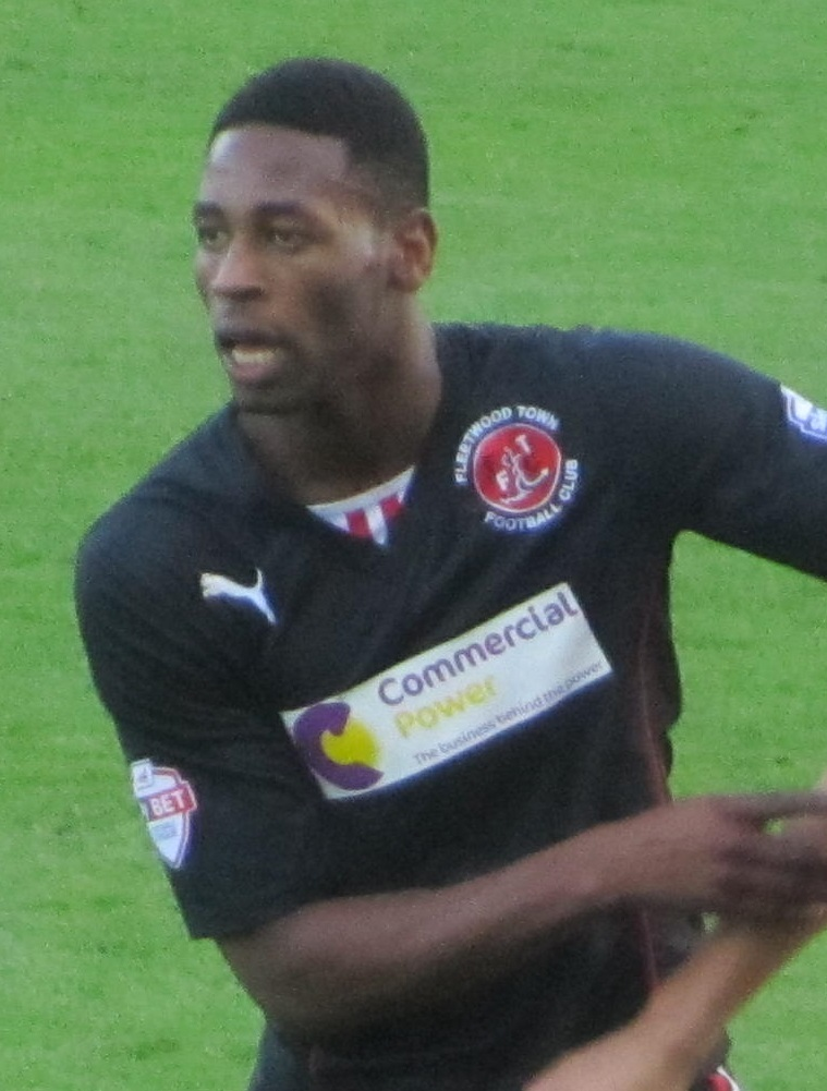 Jamille Mat.